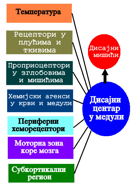 Pulmonary factors affecting medullary control of pulmonary ventilation.